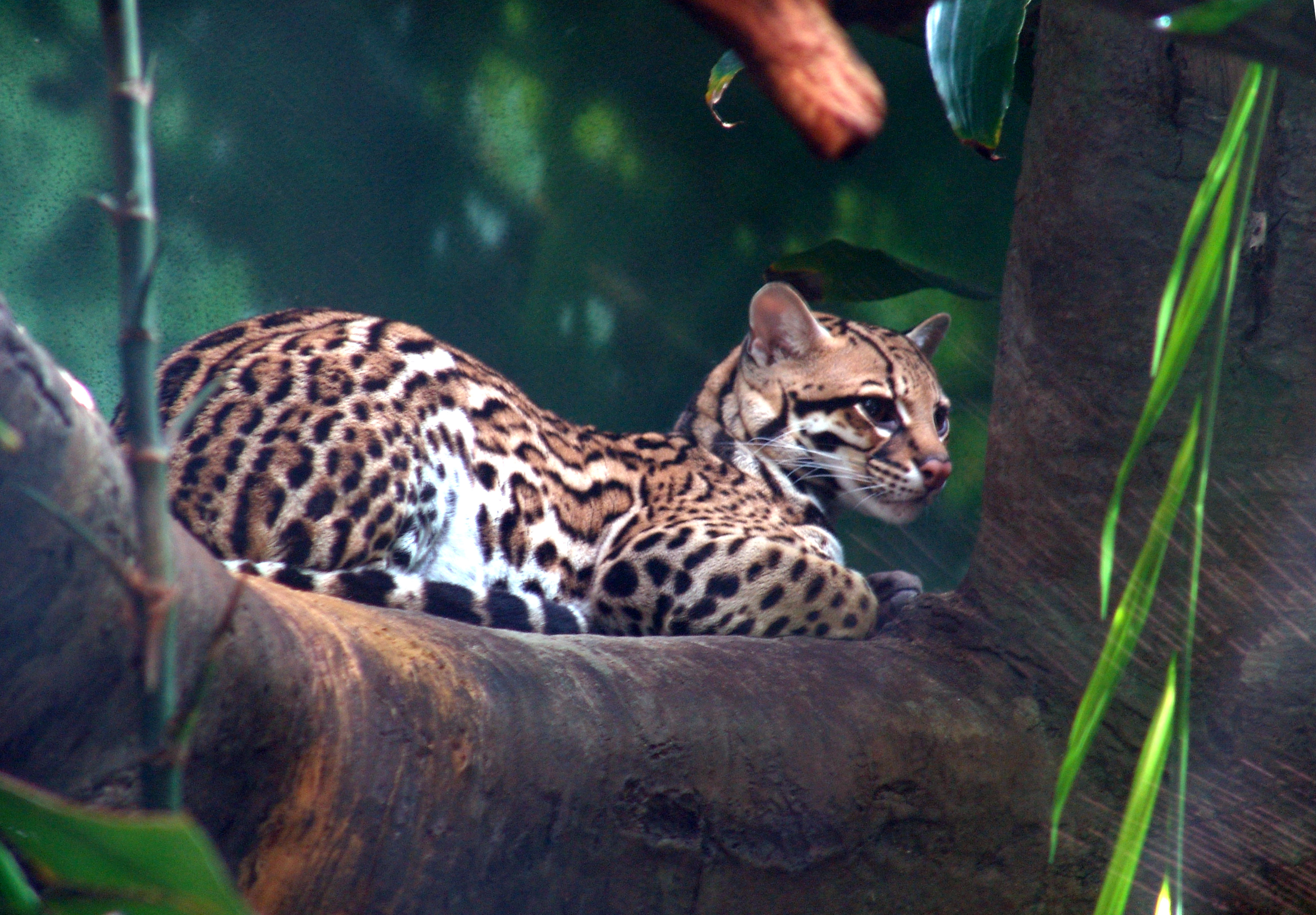 The ocelot at Woodland Park Zoo in Seattle, Washington